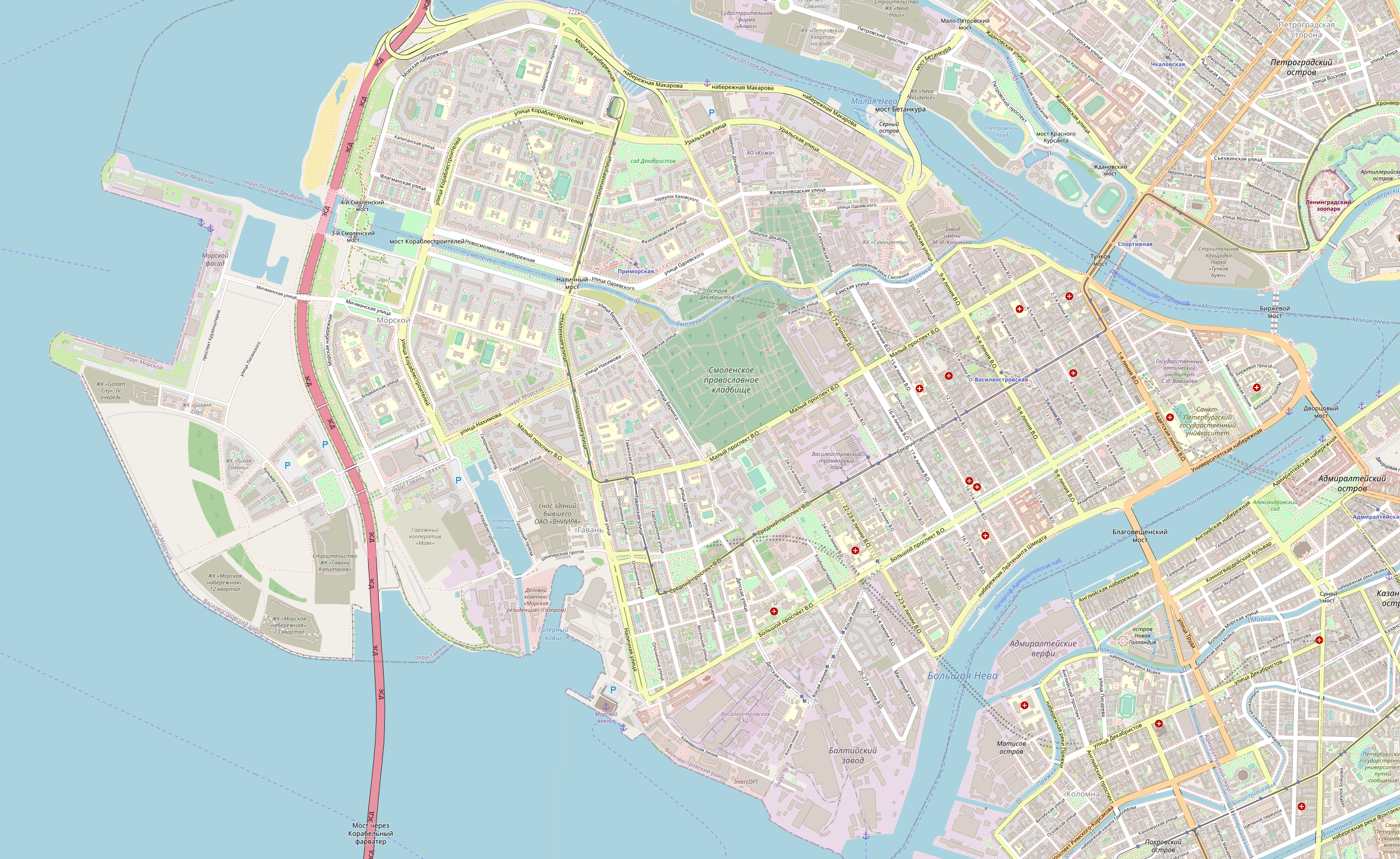 Map of Vasilievsky Island, Saint Petersburg